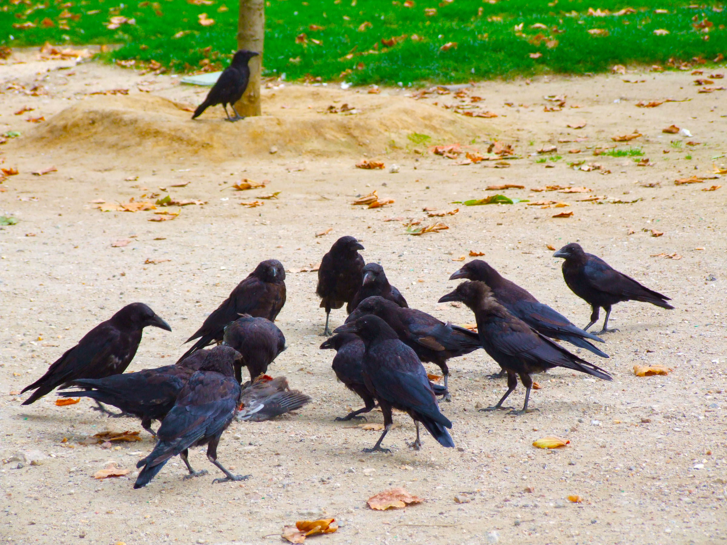 Carrion Crows scavenging in Paris, France. They have found a dead pigeon to eat.